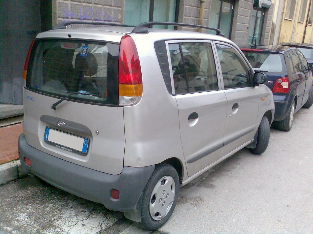 Atos rear view